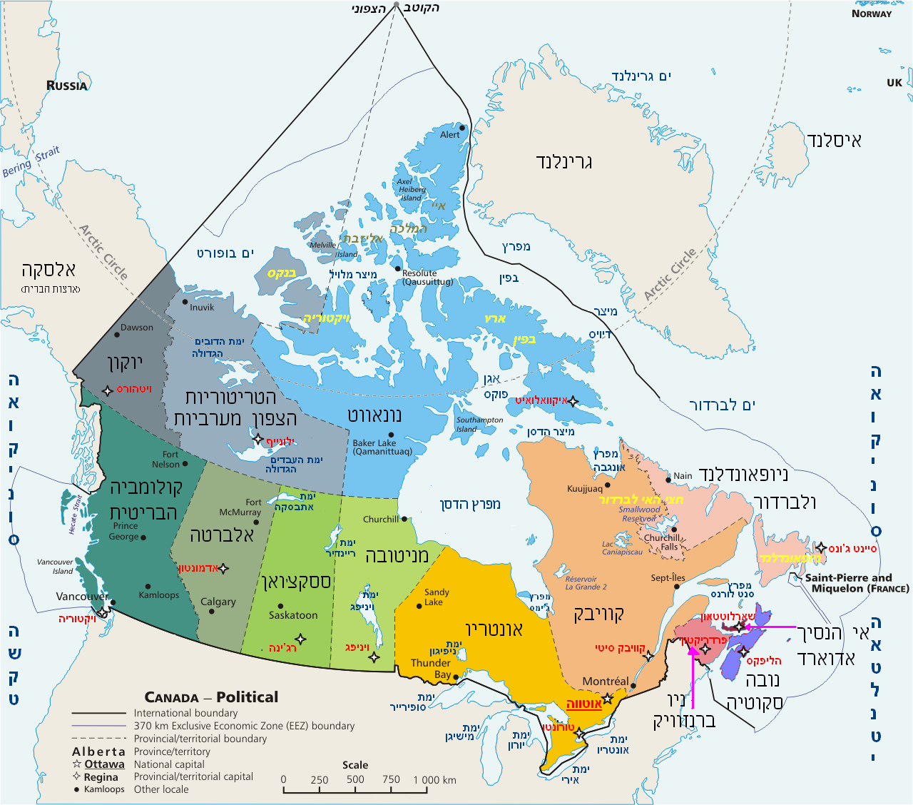 hebrew version of